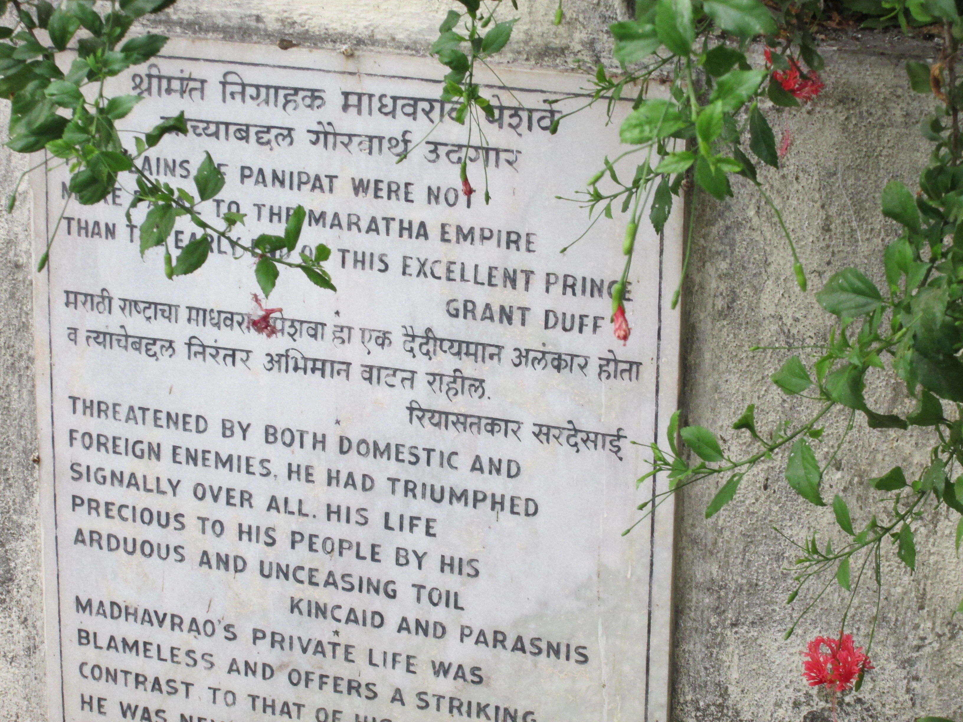 A memorial commemorating the immortal memory of HIS HIGHNESS PRADHANPANT SHRIMANT MADHAVRAO BALLAL PESHWA. Indian aristocrat and Peshwa of Mahratta India; born at Savanur (Karnataka) 1745 AD, died near Pune (Maharashtra) 1772 AD. In his very short tenure, and in spite of opposition, Madhavrao Peshwa contributed tremendously to the Maratha Kingdom. After the debacle of Panipat, he rekindled the Maratha spirit by his unwavering leadership. He resurrected a flagging economy and replenished the Kingdom's treasury through various expeditions. The memorial is located in the town of Pune, India.